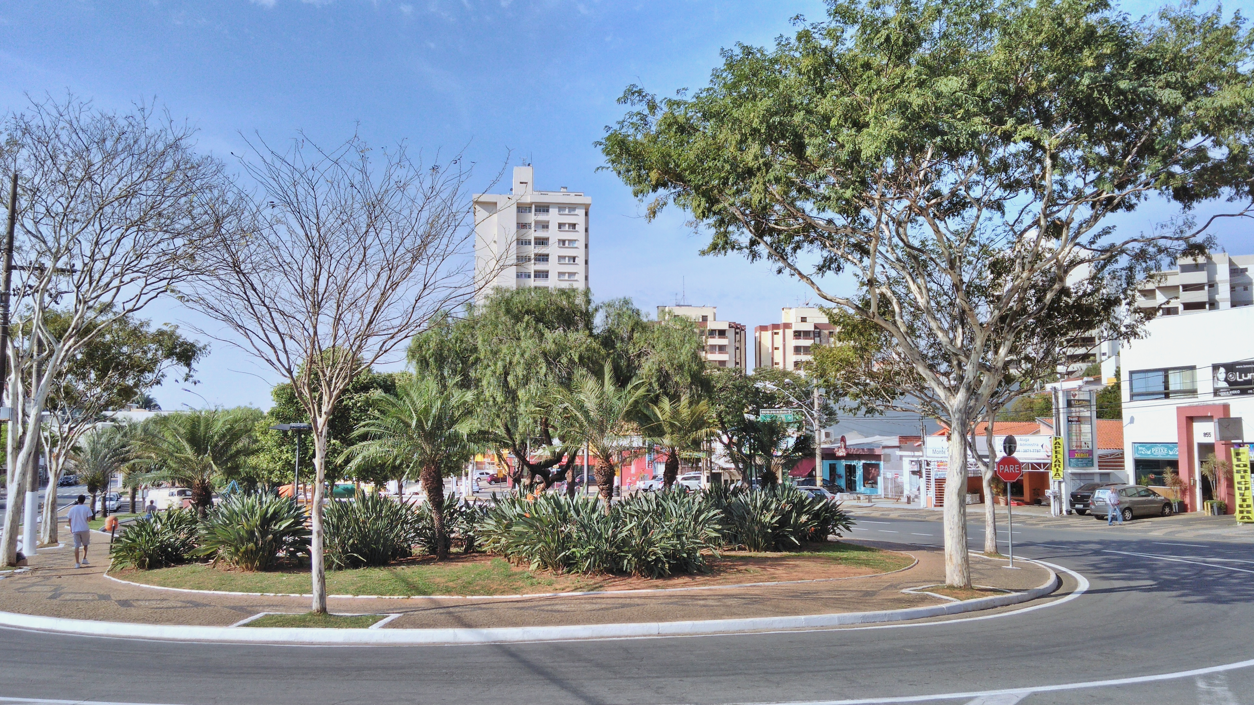 Photo of the park "Praça Brasil 500 Anos" in the city of Valinhos in the state of São Paulo.